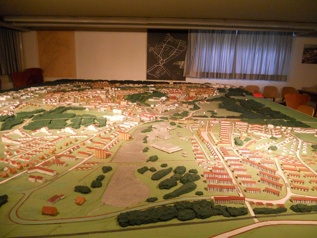 Model of Sennestadt